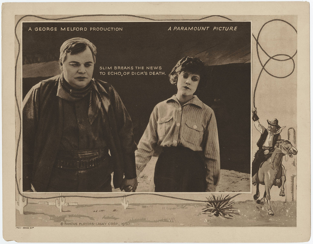 Lobby card for the American western film The Round-Up (1920) with Roscoe "Fatty" Arbuckle as Slim Hoover and Mabel Julienne Scott as Echo Allen. Caption: "Slim breaks the news to Echo of Dick's death." Approximately 28 x 35.5 cm. Part of the Western silent films lobby card collection, 1912-1930. Cite as Yale Collection of Western Americana, Beinecke Rare Book & Manuscript Library, Yale University. Bibliographic Record Number 2019905. View our Record: Permalink.